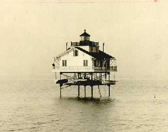 1912 photograph of Cobb Point Bar Light (original converted to PNG and heavily cropped).